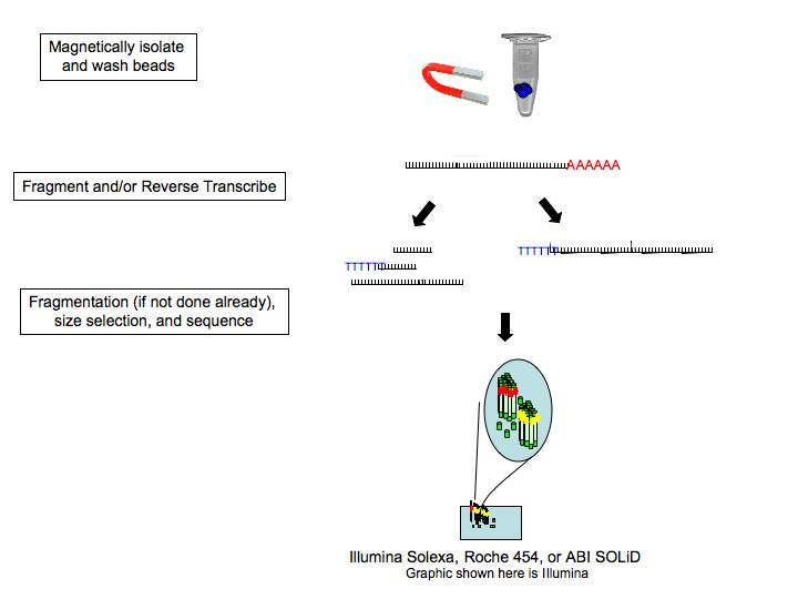 See text